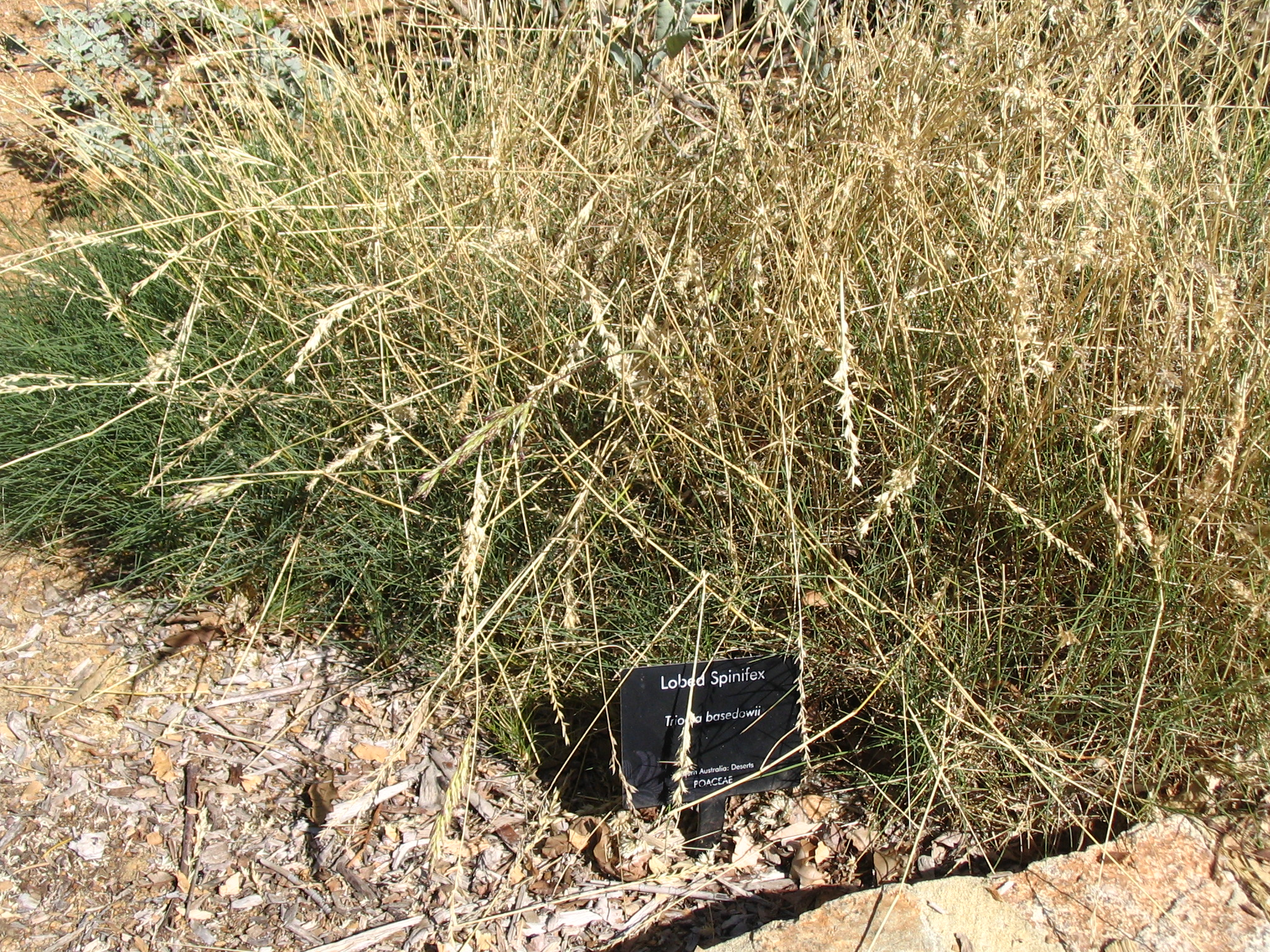 Lobed Spinifex (Triodia basedowii), an Australian grass, in Kings Park, Perth, Australia. See Triodia (plant genus) and wikispecies:Triodia basedowii.